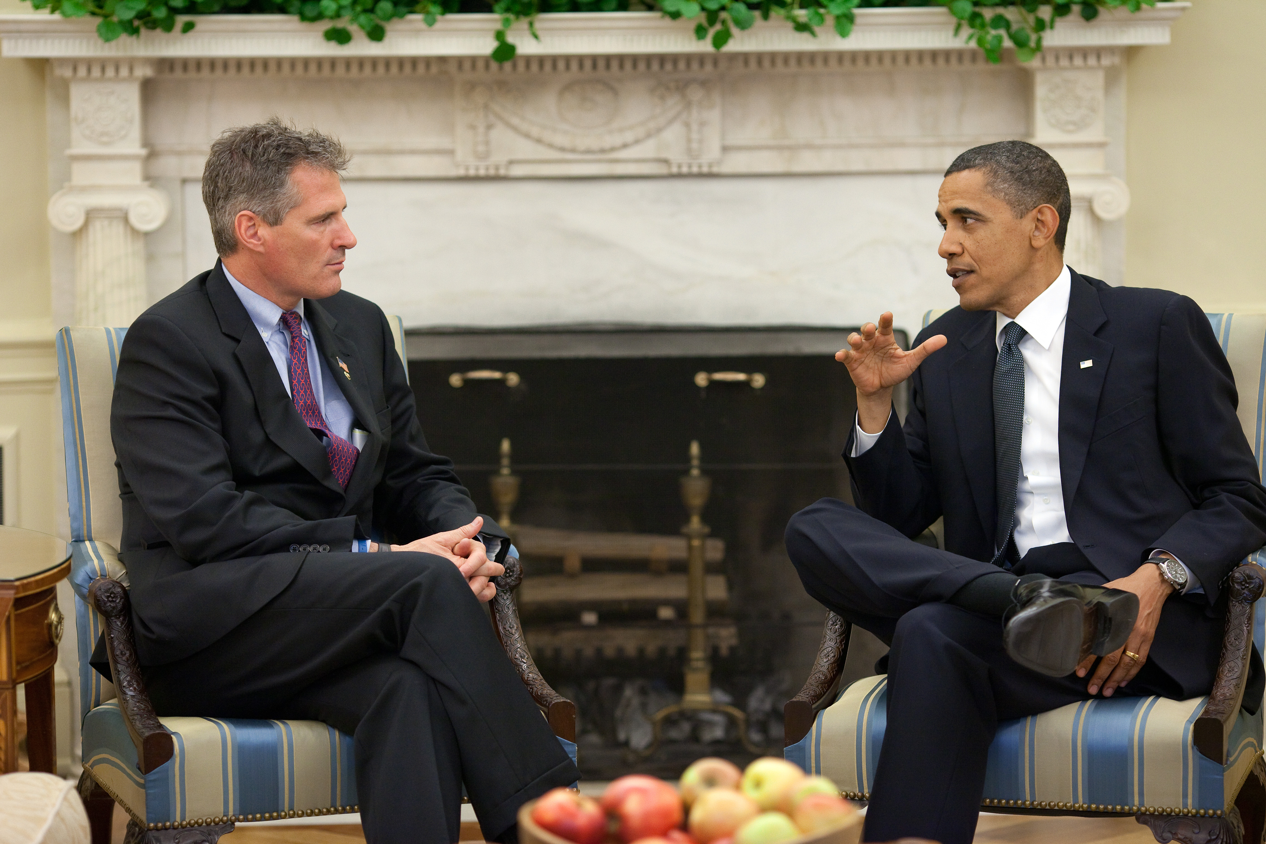 Image courtesy of The White House. President Barack Obama meets with Sen. Scott Brown, R-Mass., in the Oval Office, June 16, 2010. (Official White House Photo by Pete Souza)